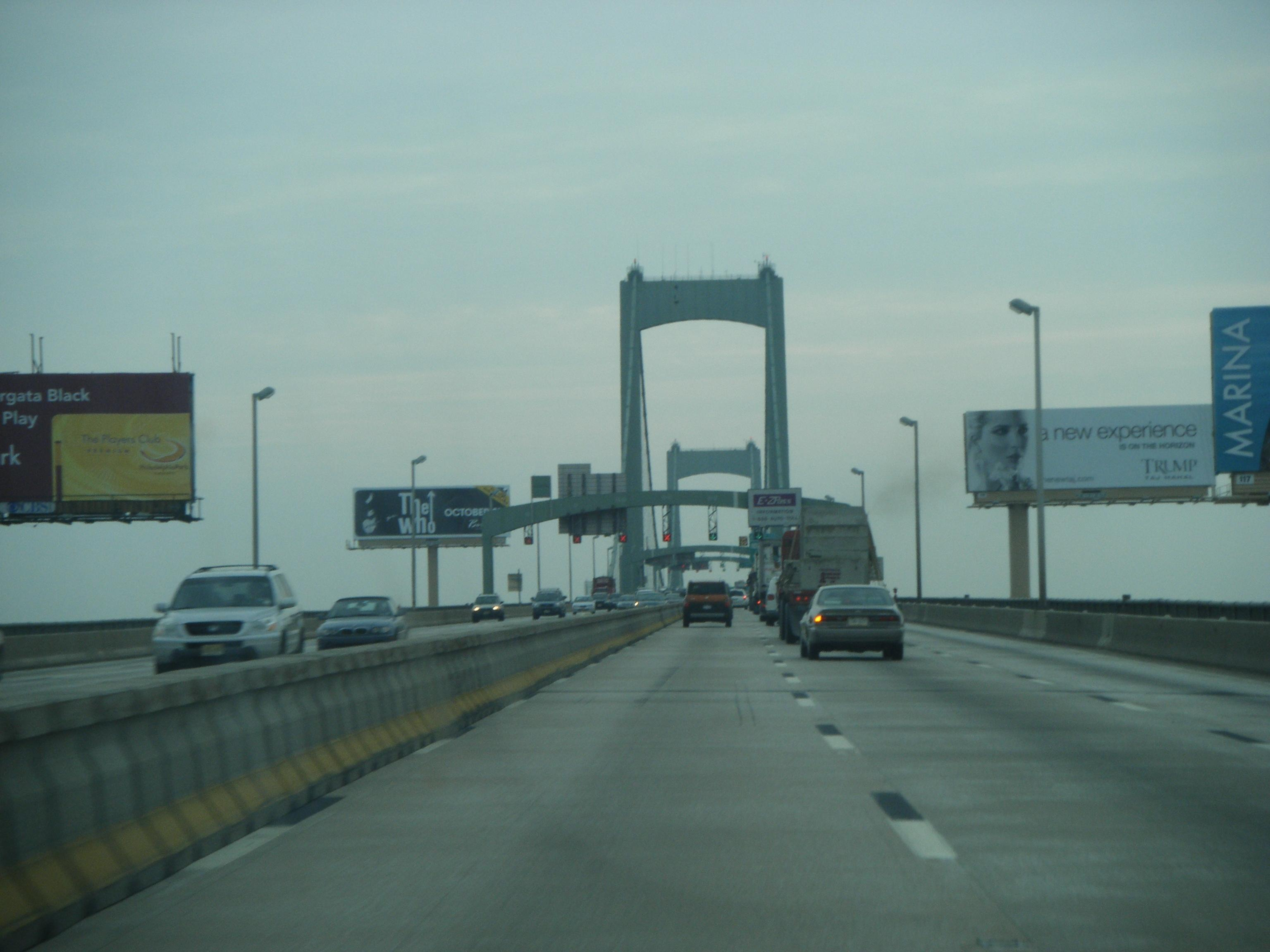 Eastbound on the Walt Whitman Bridge over the Delaware River between Philadelphia, Pennsylvania and Gloucester City, New Jersey